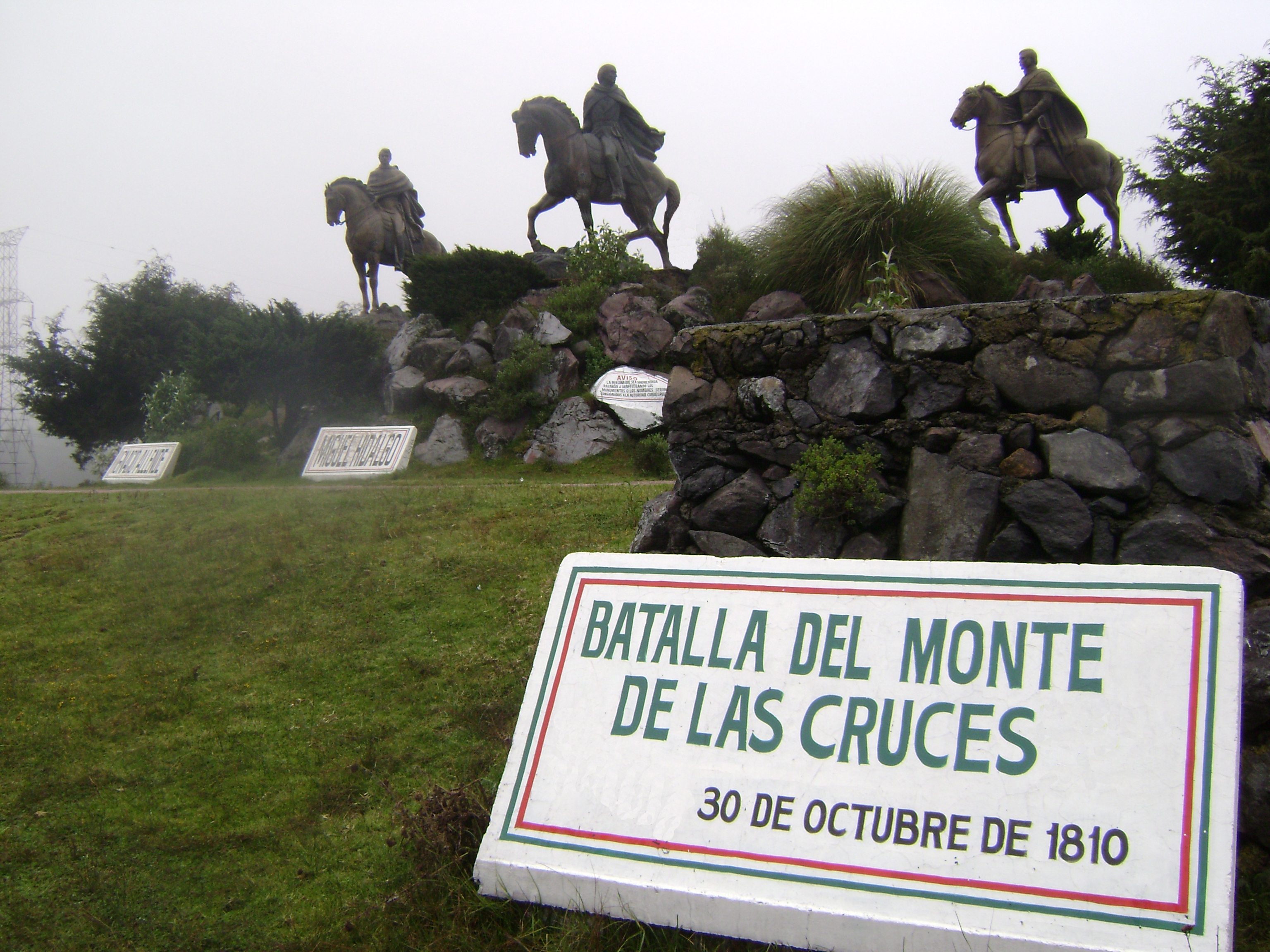 Monument in honor of the three main heroes of this mexican battle. This monument is in the place that the battle took place. From left to right: Ignacio Allende, Miguel Hidalgo y Mariano Jimenez statues.